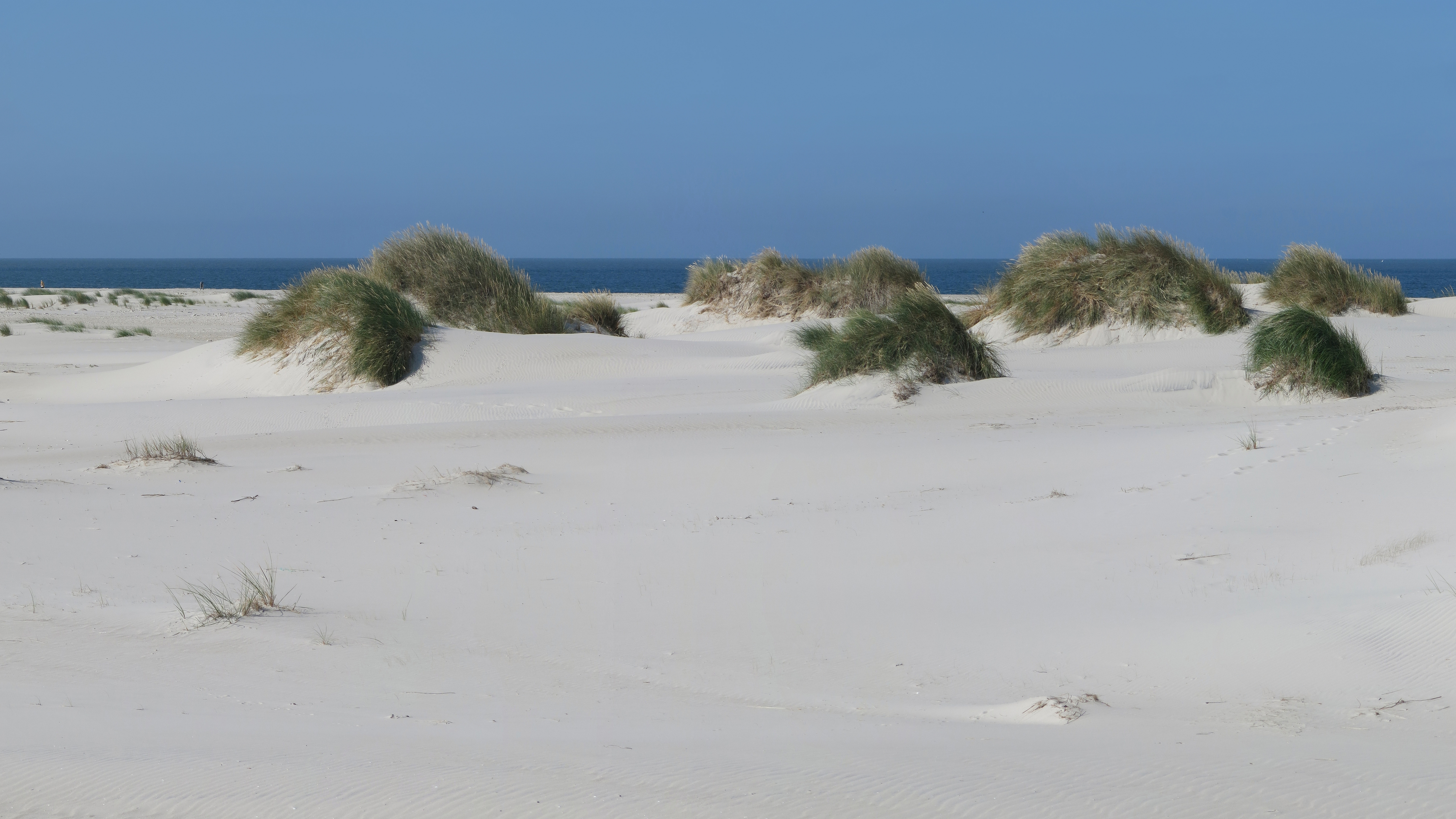 Dunes on the beach of Amrum